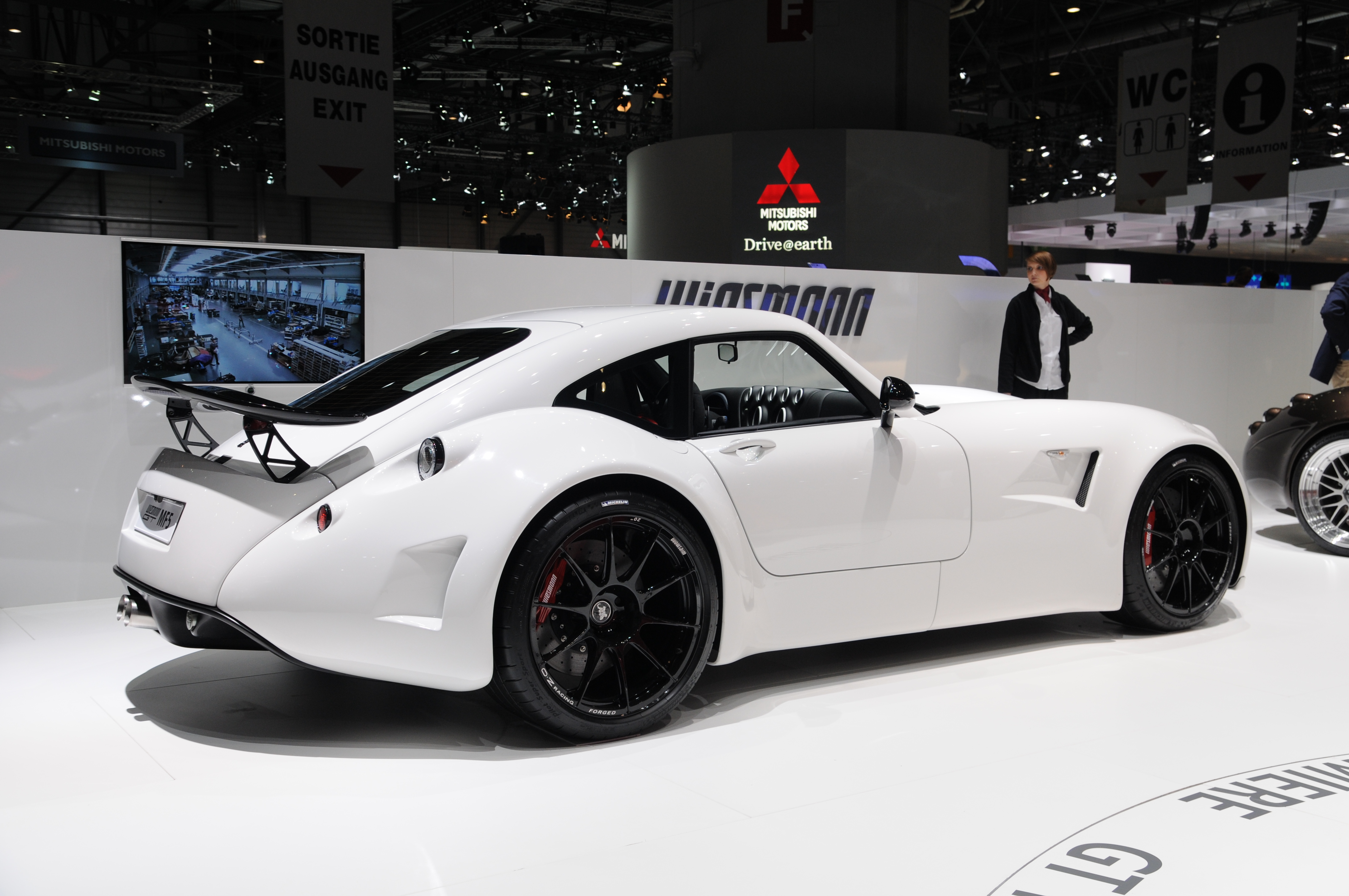 Geneva Motor Show 2013 (photos taken on the first press day)